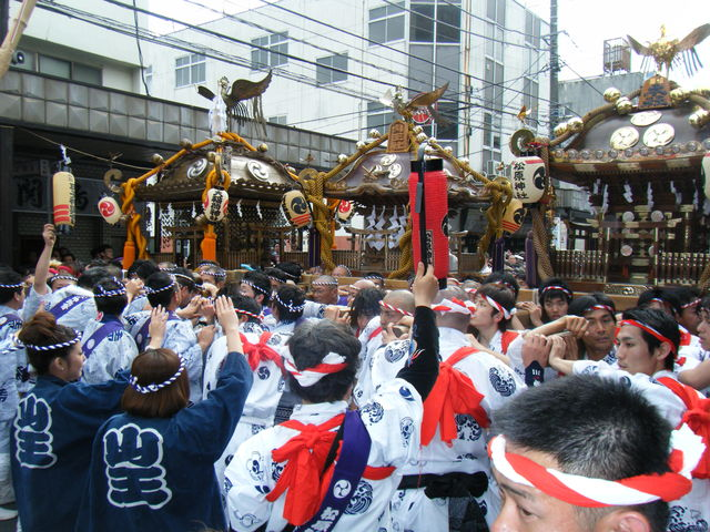 Odawara Houjyo5dai parade Mikoshi Matsubara Dainari Sannnou